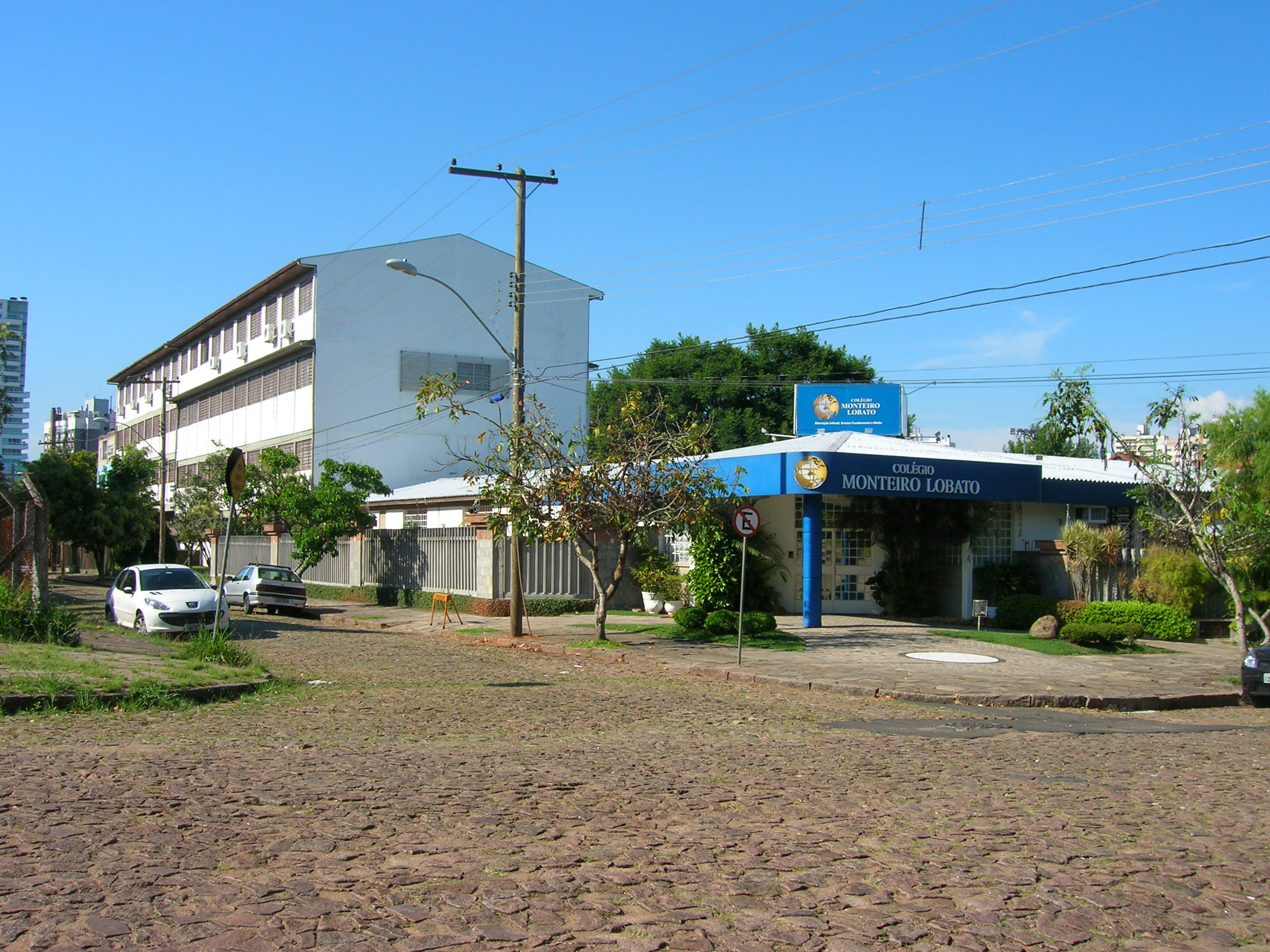 Monteiro Lobato School, in Porto Alegre, Brazil.